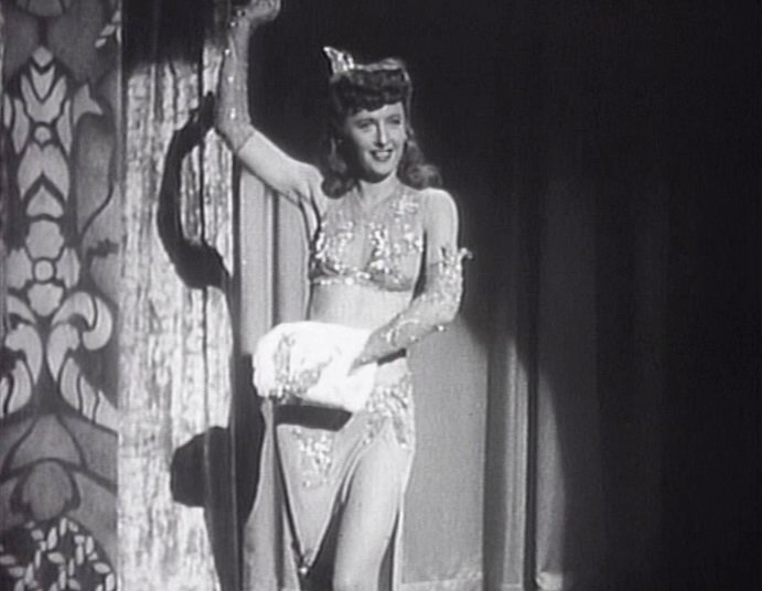 Cropped screenshot of Barbara Stanwyck from the film Lady of Burlesque.